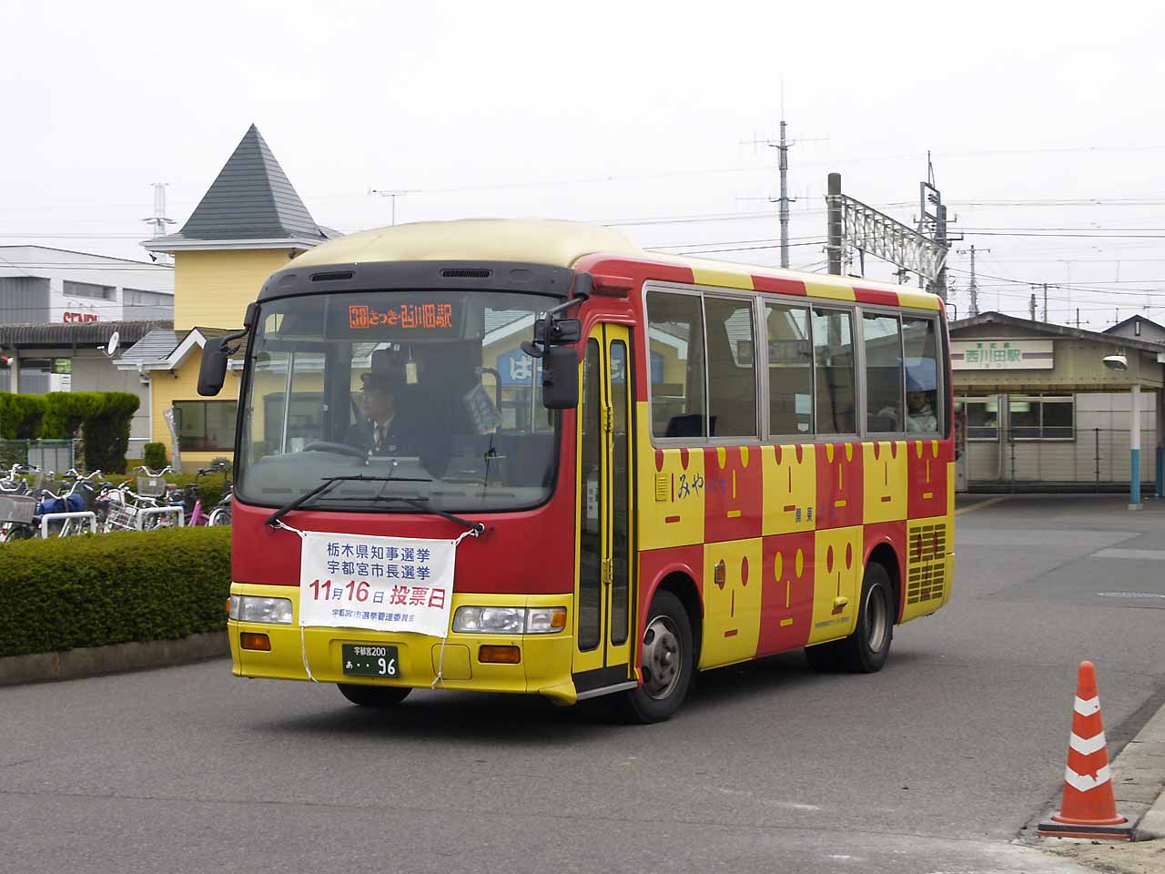 Fleet of Kanto Jidosha, small sized bus called "Miya Bus" designed by Kazuko Nishimura. Model: Hino Liesse KK-RX4JFEA License plate: TGU200 A--96 Base: Utsunomiya Dept. Place: Nishi-kawada station, Utsunomiya City, Tochigi Japan